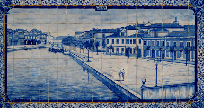 This file was uploaded for Wiki Loves Monuments in Portugal with the unique identifier 97024756.